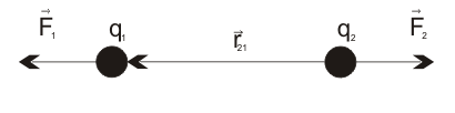 A graphical representation of Coulomb's law.